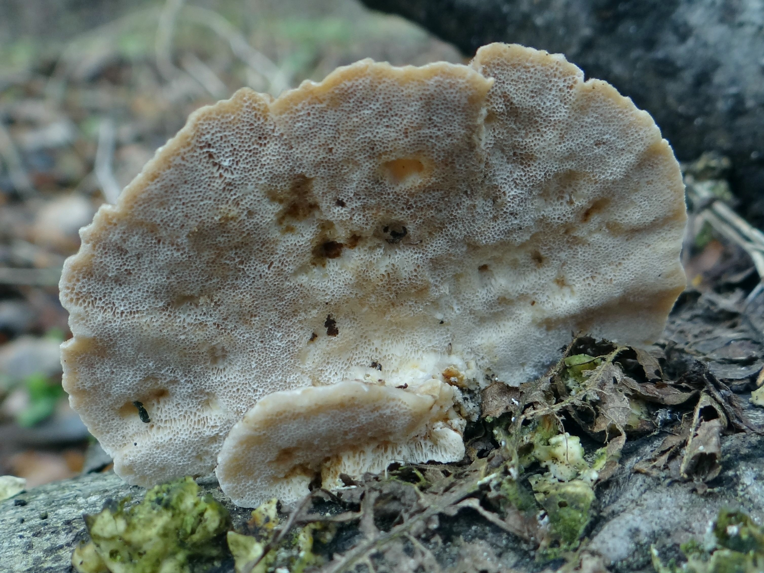 Trametes ochracea